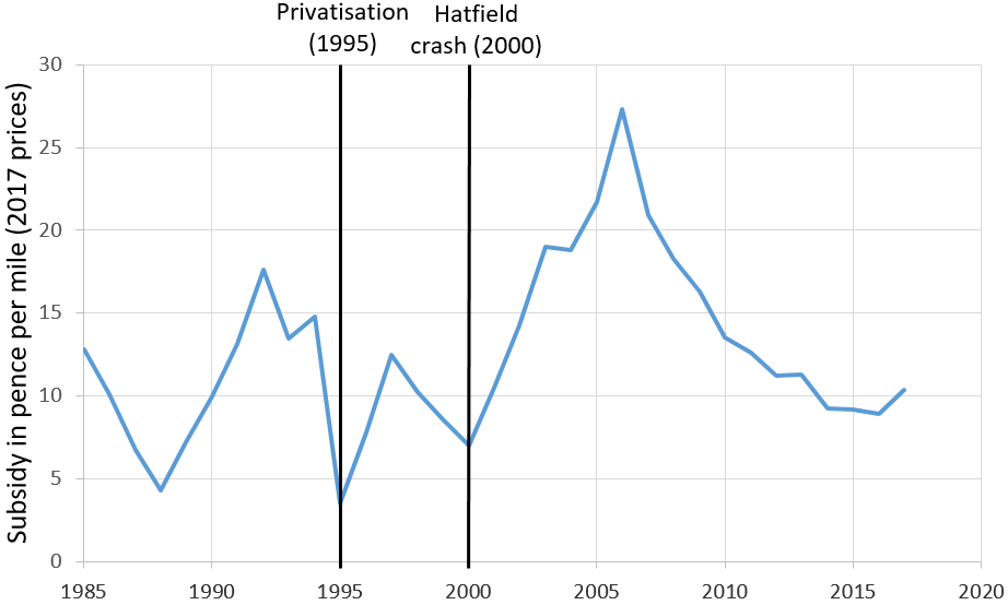 UK rail subsidy 1982-2014 in terms of pounds per passenger journey in 2014 prices using subsidy data from Subsidy data, Terry Gourvish's "British Rail 1974-1997: From Integration to Privatisation" and passenger numbers data from ATOC's 2008 publication Billion Passenger Railway for 1982 to 2001 and Passenger journeys by sector - table for 2002 onwards